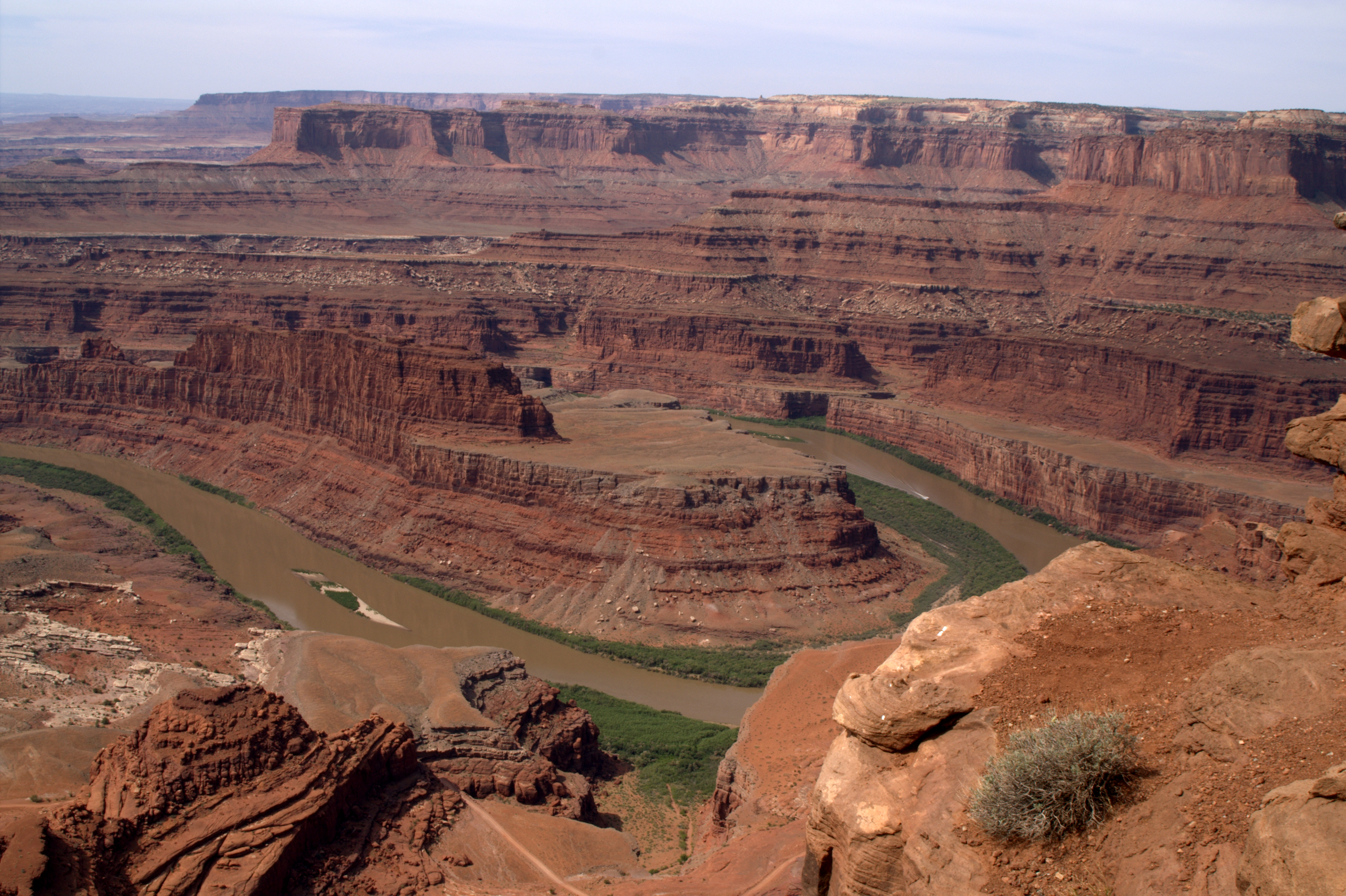 View on Colorado River from Dead Horse Point Overlook in Dead Horse Point State Park in Utah, USA.